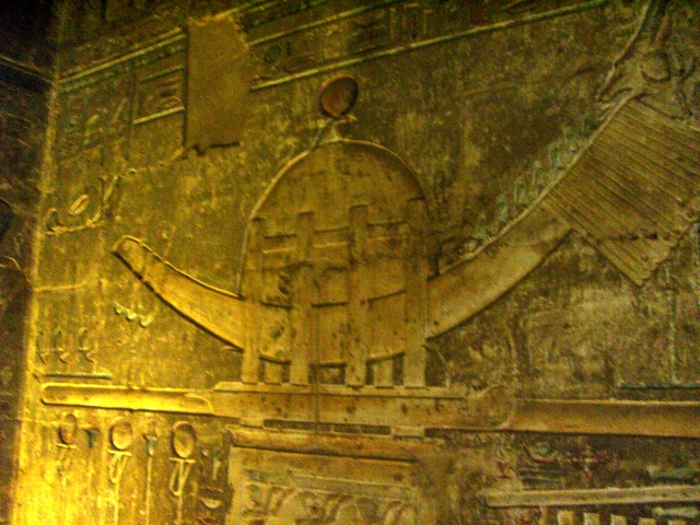 Relief of the divine bark Hennu - Temple of Hathor at Deir el-Medineh